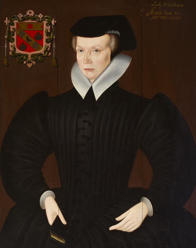 Portrait of Dorothy Petre (1534–1618), wife of Nicholas Wadham (d.1609), joint founders of Wadham College, Oxford.